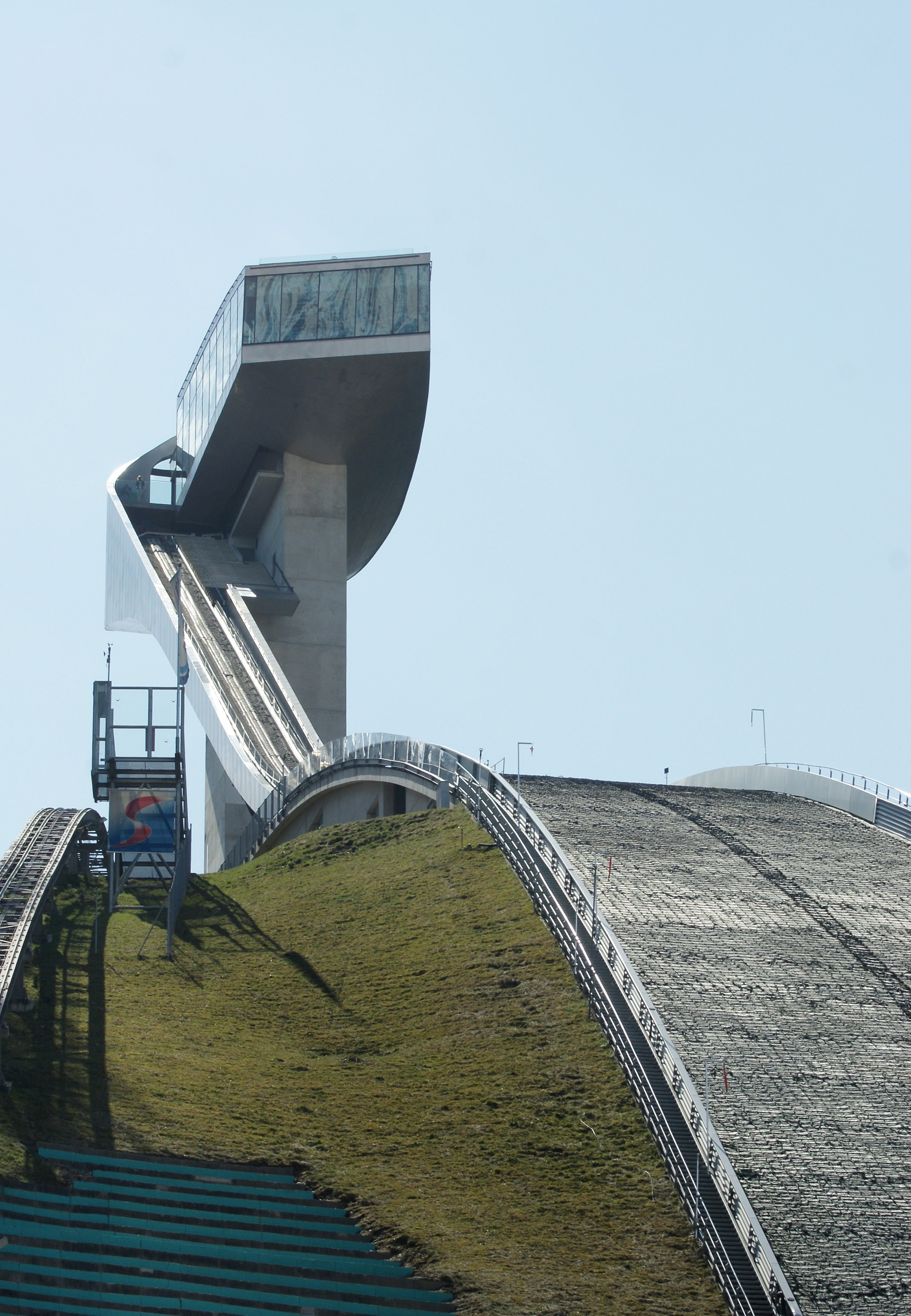 View of Bergisel ski jumping hill in Innsbruck (Austria).